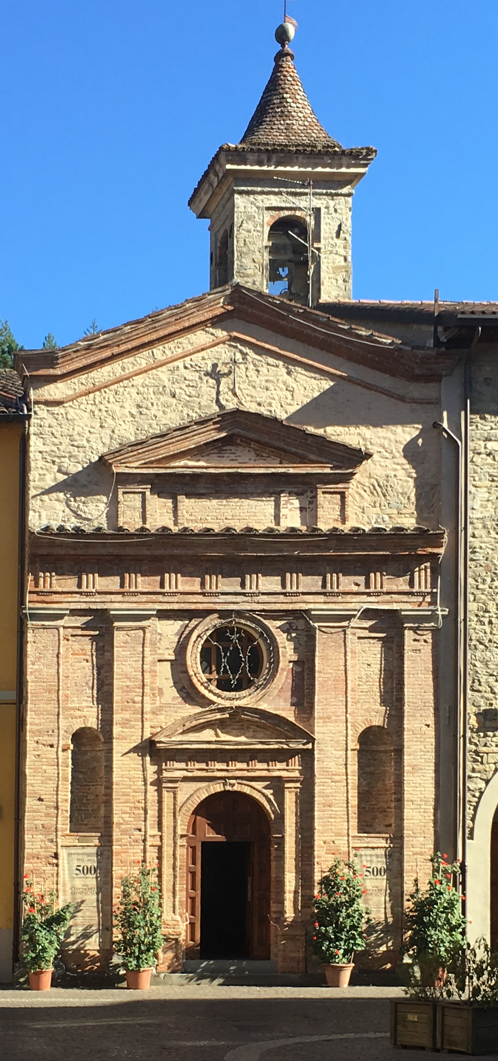 Chiesa della Beata Vergine delle Grazie e della Compagnia del SS.mo Sacramento, Tredozio FC - Italy